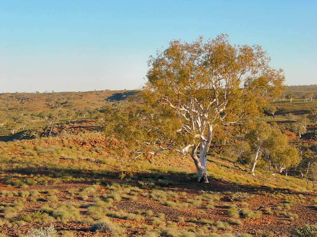 Photo taken and supplied by Brian Voon Yee Yap.